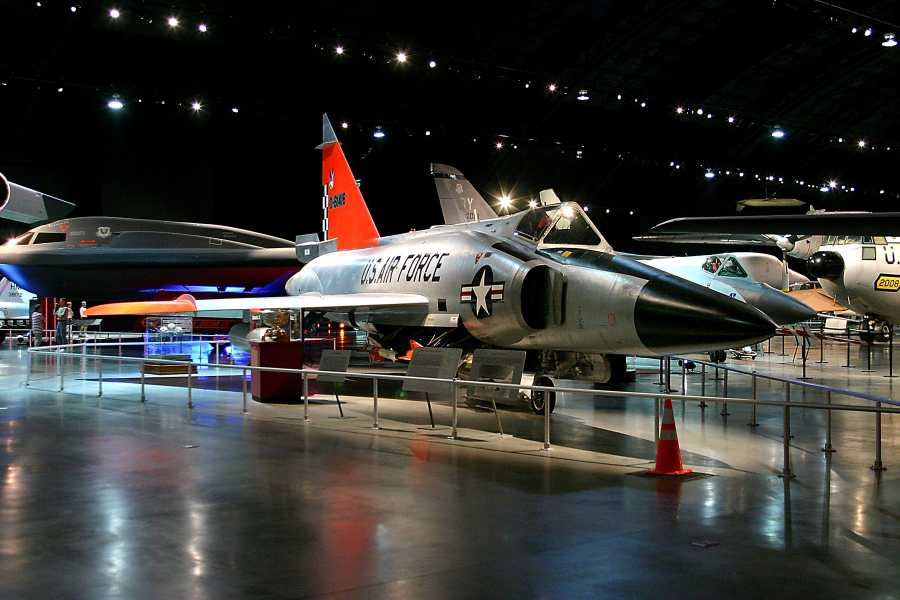 F-102 Delta Dagger at the National Museum of the United States Air Force